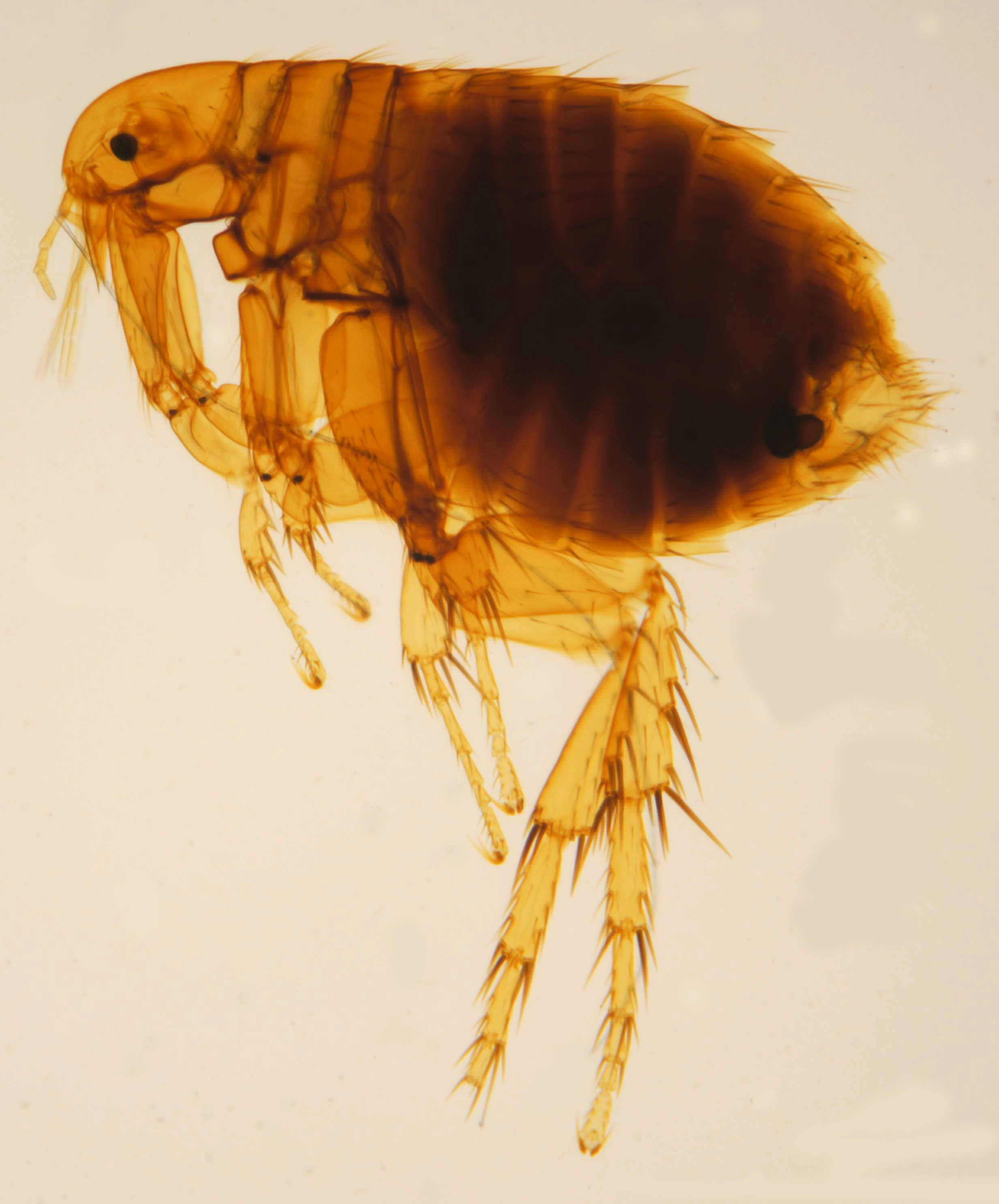 Xenopsylla cheopis, female, stored in ZSM collection